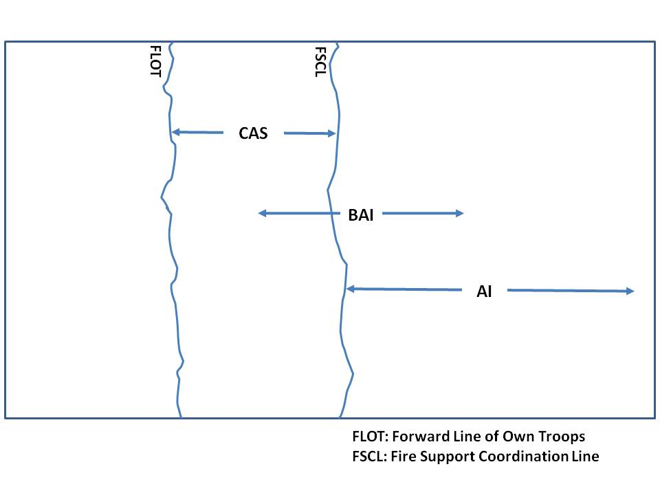 Depiction of Air Interdiction (AI), Battlefield Air Interdiction (BAI) and Close Air Support (CAS) in relation to the Forward Line of Own Troops (FLOT) an Fire Support Coordination Line (FSCL). Reference